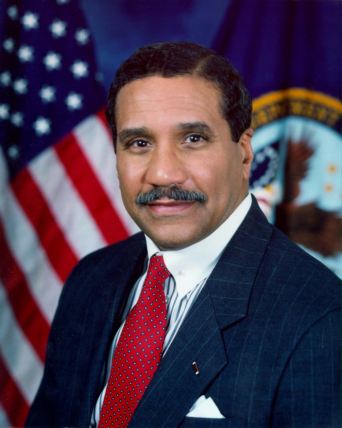 Photo of former Secretary of Veterans Affairs Togo West